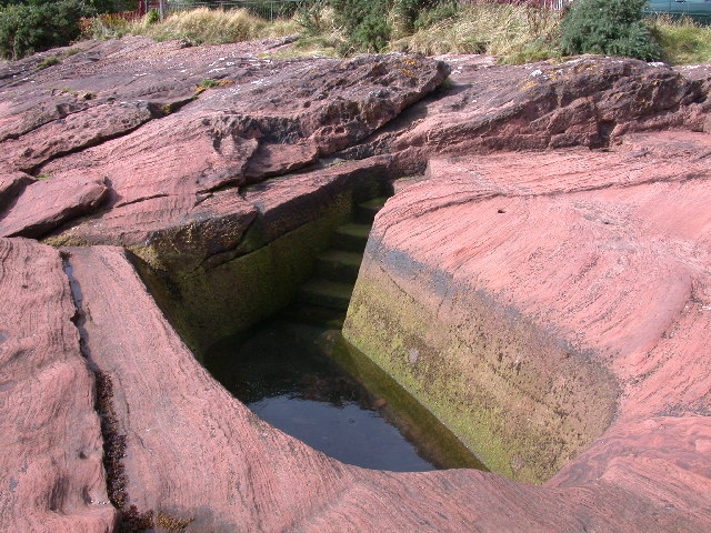 The Doctor's bath, Corrie. Carved from bedrock, Old red sandstone, the doctor's bath fills at high tide- go on take a dip!